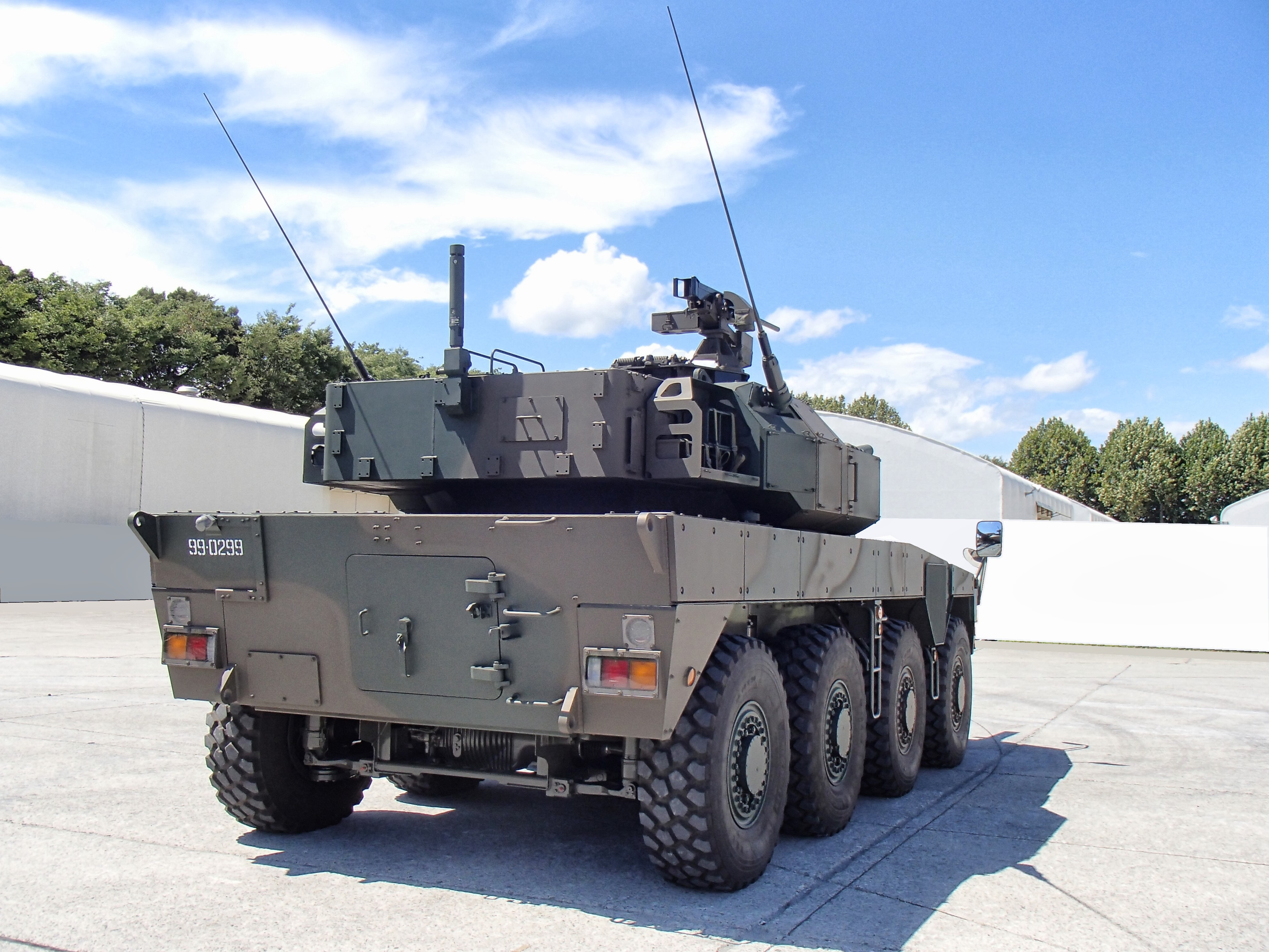 Title 2.JPG Album 機動戦闘車(MCV:Maneuver Combat Vehicle) 機動戦闘車 Photographs by the Japan Ground Self-Defense Force